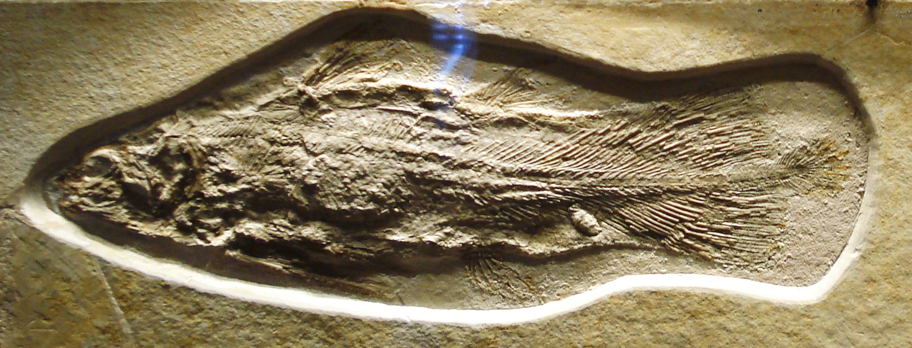 fossil of coccoderma